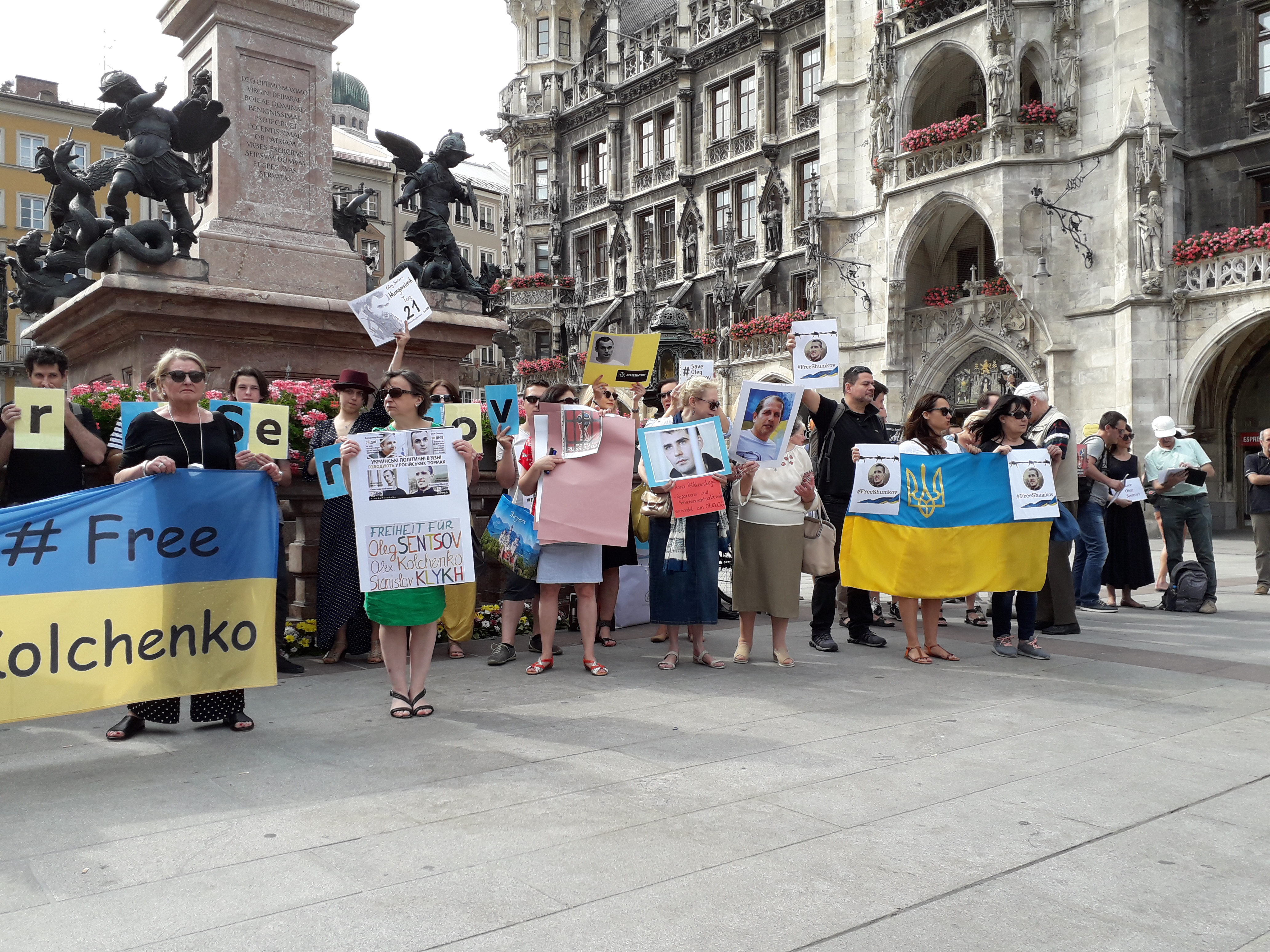 Oleg Gennadyevich Sentsov (Ukrainian: Олег Геннадійович Сенцов, Oleh Hennadiovych Sentsov) is a Ukrainian filmmaker and writer, best known for his 2011 film Gamer. He was arrested by the Russians authorities in Crimea and convicted to 20 years in jail by Russian court on charges of plotting terrorism acts. The conviction was widely described as fabricated or exaggerated. On 14 May 2018, he went on an open-ended hunger strike protesting the incarceration of 65 Ukrainian political prisoners in Russia and demanding their release. On June 3, 2018 in Munich on Marien Platz, the central square of the Bavarian capital, an action was held in support of the Ukrainian director Oleg Sentsov.